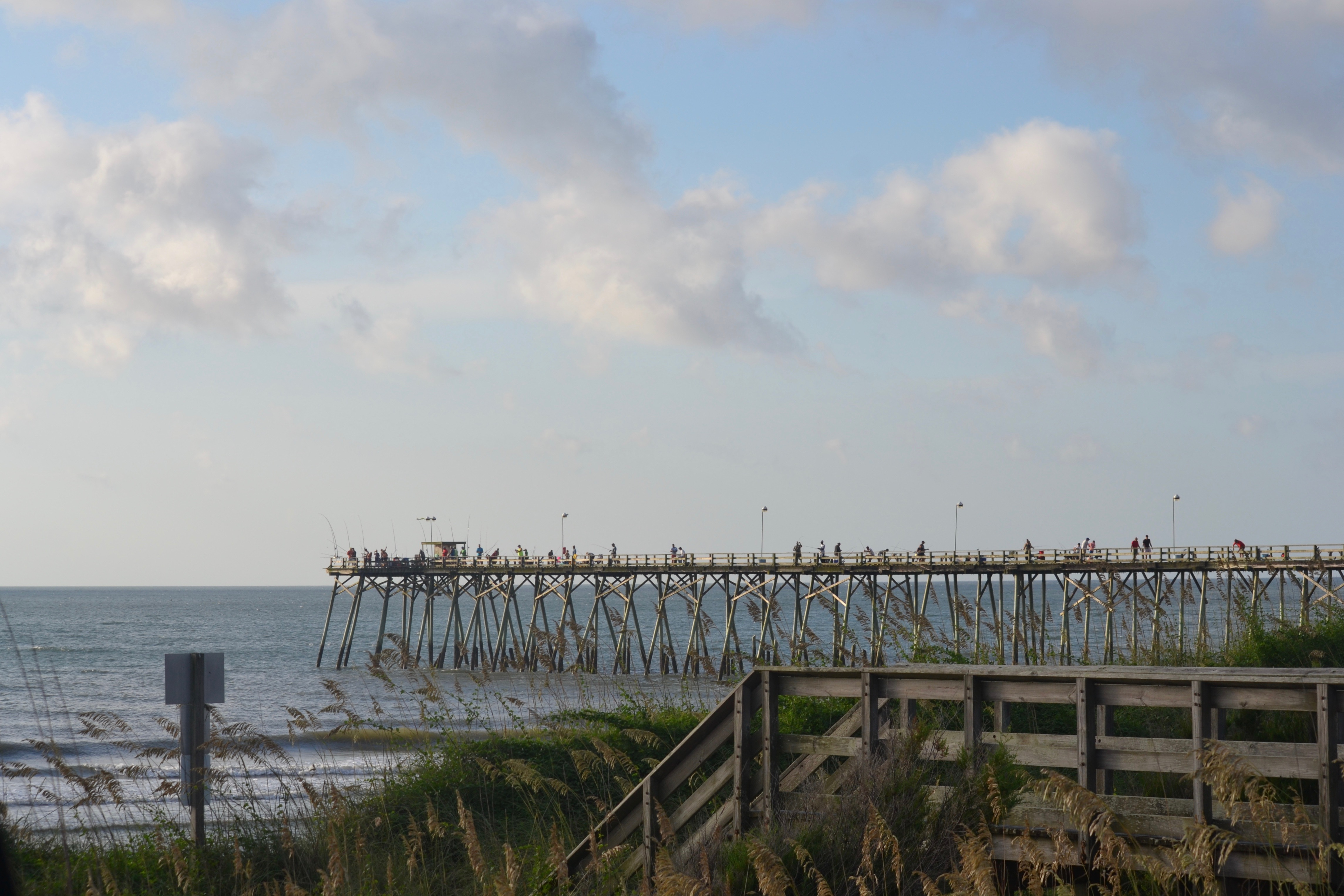 Kure Beach Pier 2018